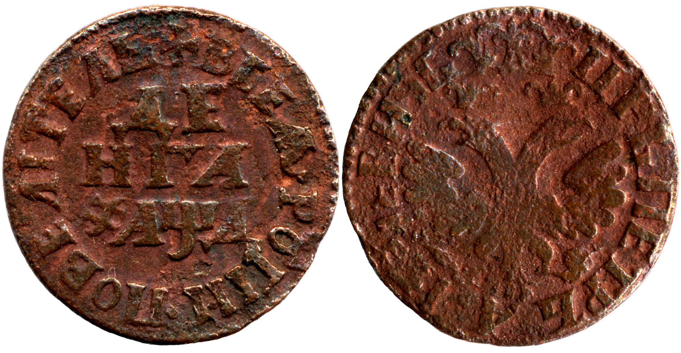 Back and front side of a Russian denga copper coin minted during tsar Peter I in 1704.